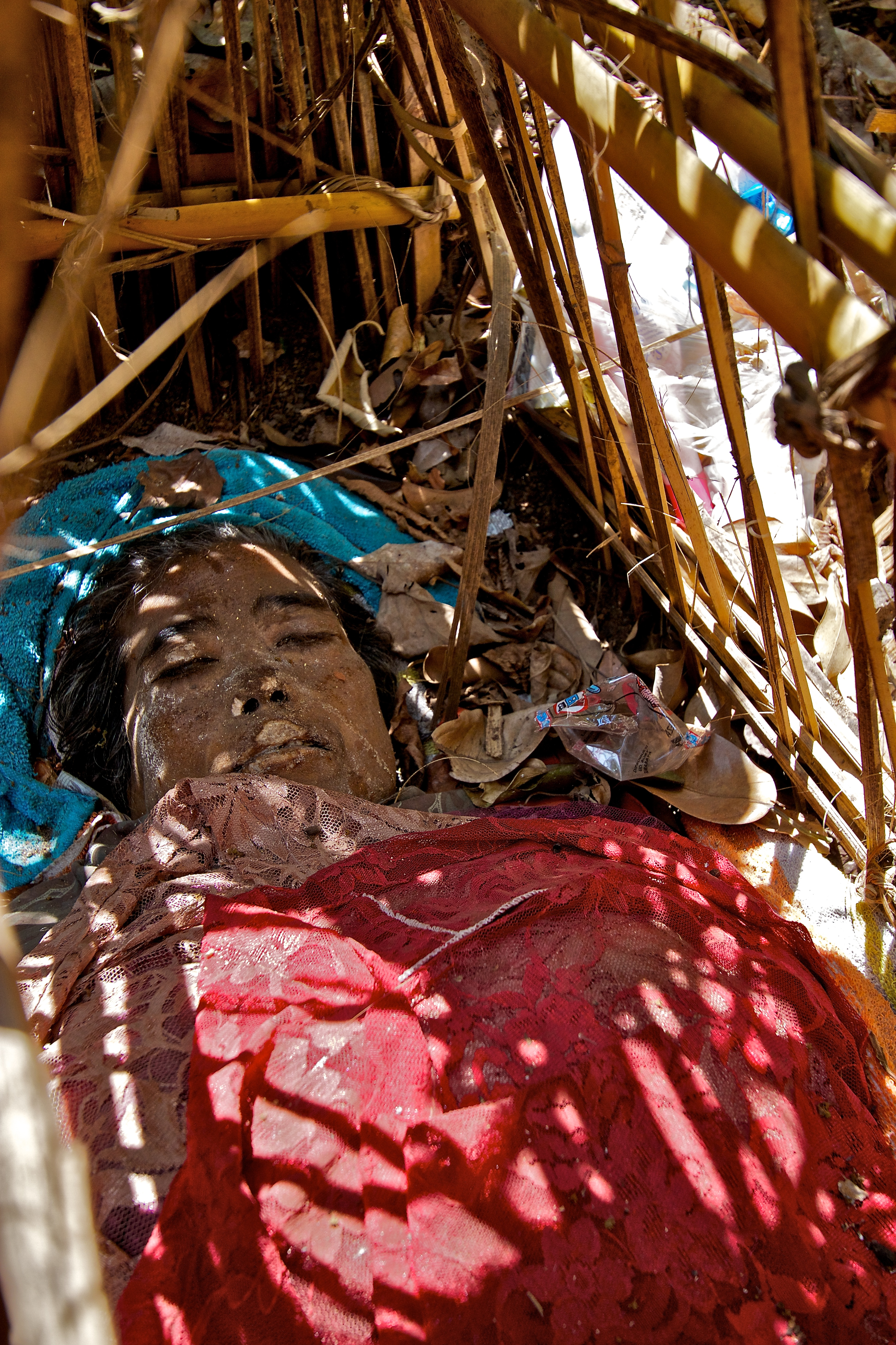 The body of a young lady, put to rest a month ago to decompose, Trunyan, Lake Batur, Bali, Indonesia